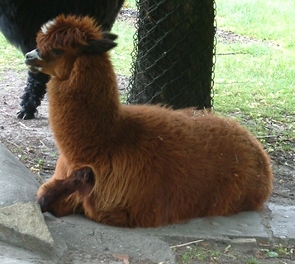 Alpacas at the Old Poznań Zoo, Poland.